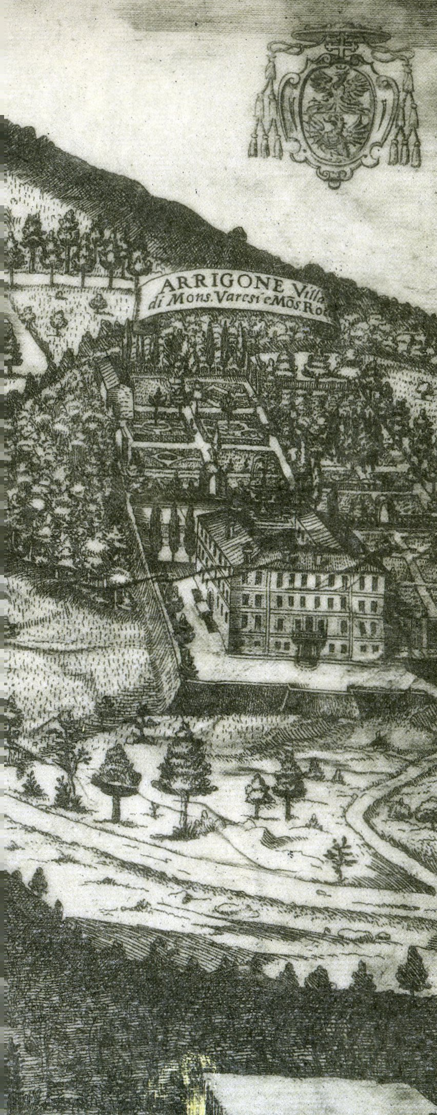 Photo of old print (more 100 years) taken by the author Luiclemens